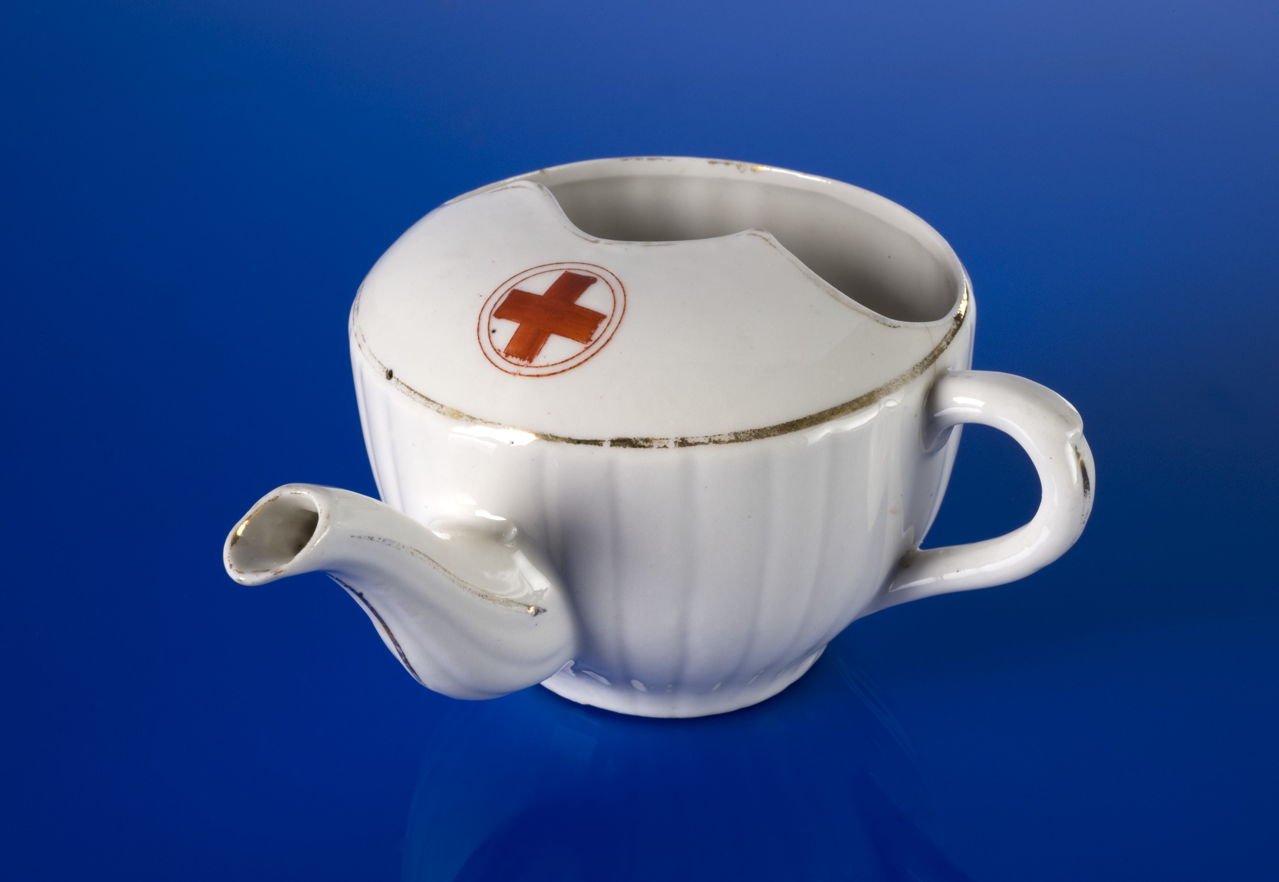 Made from white porcelain this cup was used to feed sick people who could not sit up upright. The one-handled hemispherical design is typical. The handle is placed on the right as the majority of people are right handed. This feeding cup was used by the Red Cross Society, which was founded in 1863 to give aid to those experiencing the effects of war. This example may have been made during the First World War. The distinctive symbol of the Red Cross Society, which is staffed mostly by volunteers, is painted on the side of the cup. maker: Unknown maker Place made: Europe Wellcome Images Keywords: feeding cup; Nursing